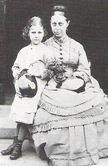 Beatrix Potter and her mother Helen {Leech} Potter in a photograph snapped by Beatrix's father Rupert Potter